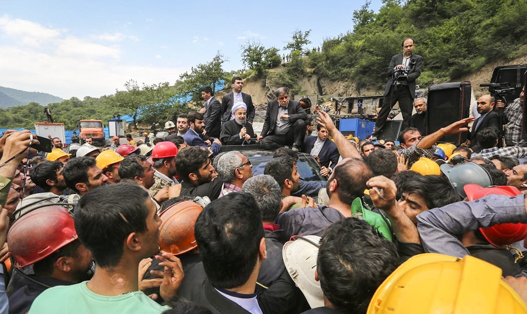 Iranian President Hassan Rouhani delivers speach between Yurt coal mine workers